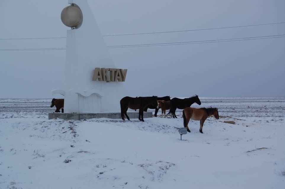 Horses in wintertime near the city of Aqtau, in Kazakhstan